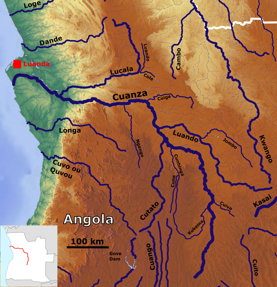 The Cuanza River with its Tributaries_OSM